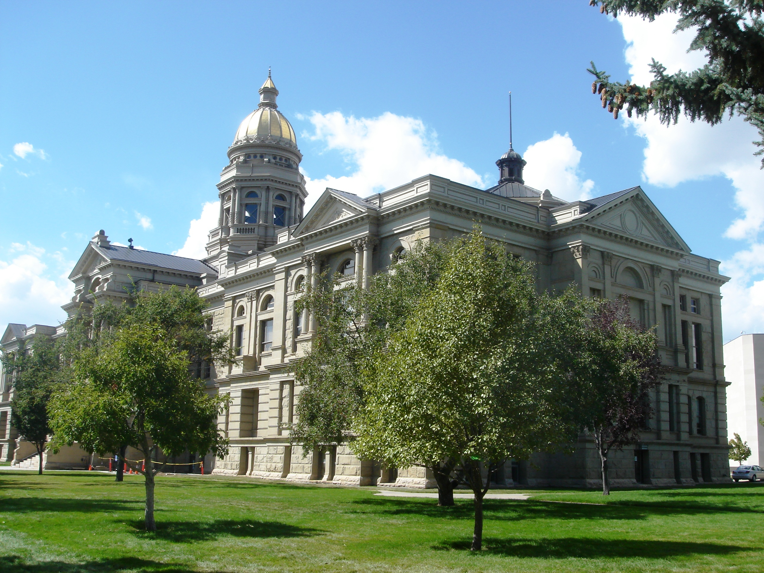 Wyoming State Capitol, from the south east